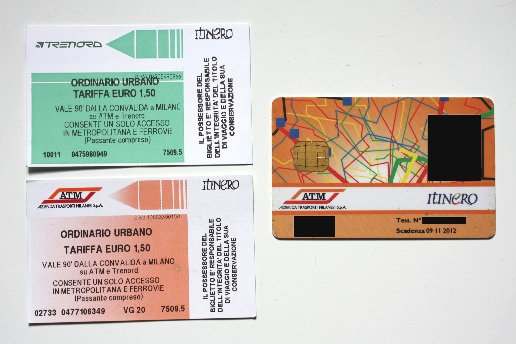 Old design of paper-magnetic tickets (SBME)[1][2] for Milan urban zone - from Trenord (up left) and from ATM (bottom left), front view for both. (A rear view of the SBME tickets - displaying the magneto strip data section - can be found at On the right, an Itinero smart card (the name on the bottom left, the photo and the card number on the right have been covered by black pixel line).